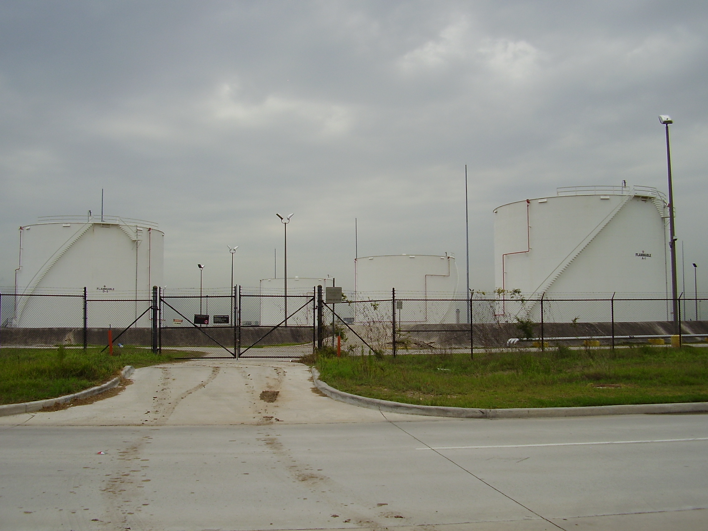 Aviation fuel storage area along Fuel Storage Road - George Bush Intercontinental Airport